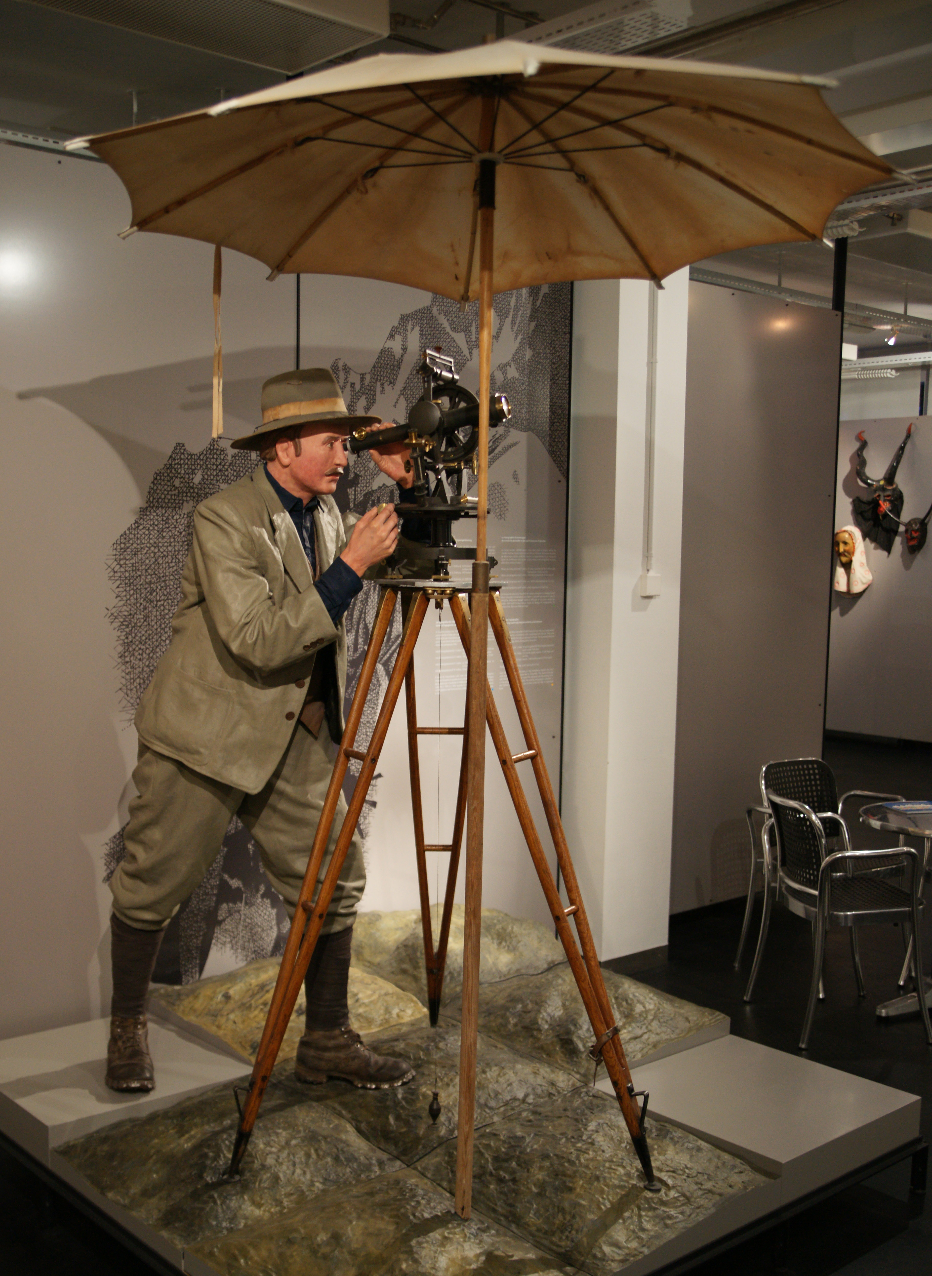 Diorama of a surveyor in Switzerland with a Hildebrand theodolite, 1910-22.